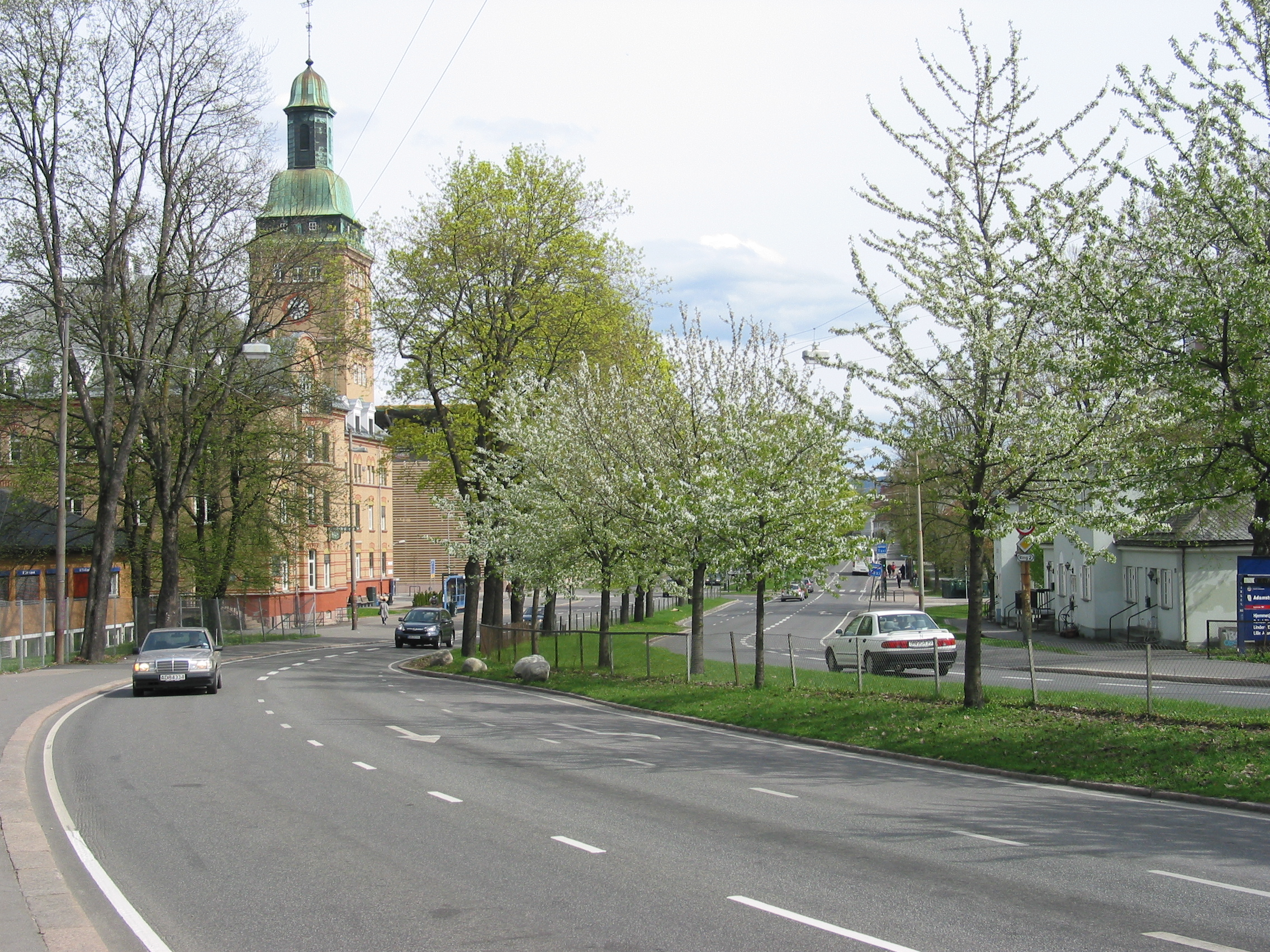 The highway Ring 2 near Ullevål Hospital, a beautiful May Sunday.